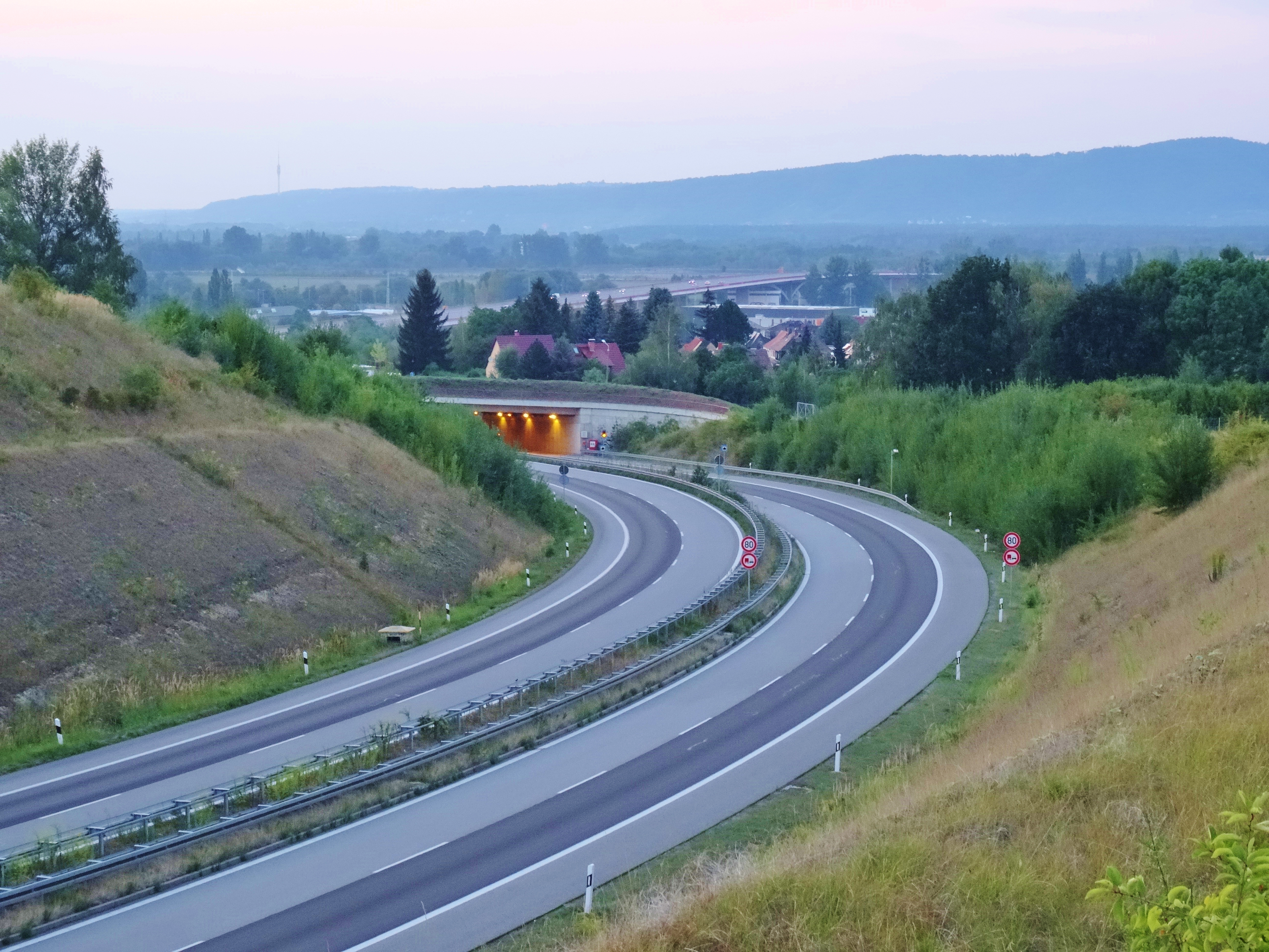 Feistenberg (Hill), Pirna